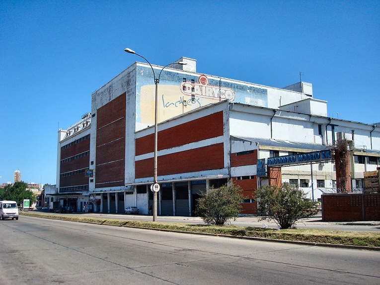 The Frigorifico Modelo cold storage unit, Montevideo, Uruguay.